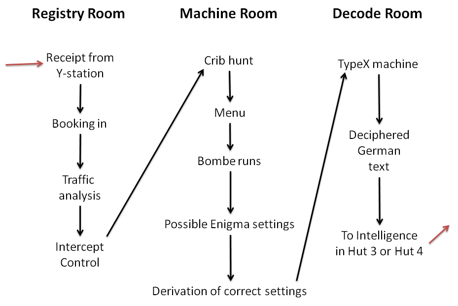 Flow diagram of the flow of an intecepted Enigma message through the decrypting process at Bletchley Park around 1944